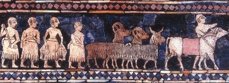 Sumerian procession. Fragment of the Standard of Ur